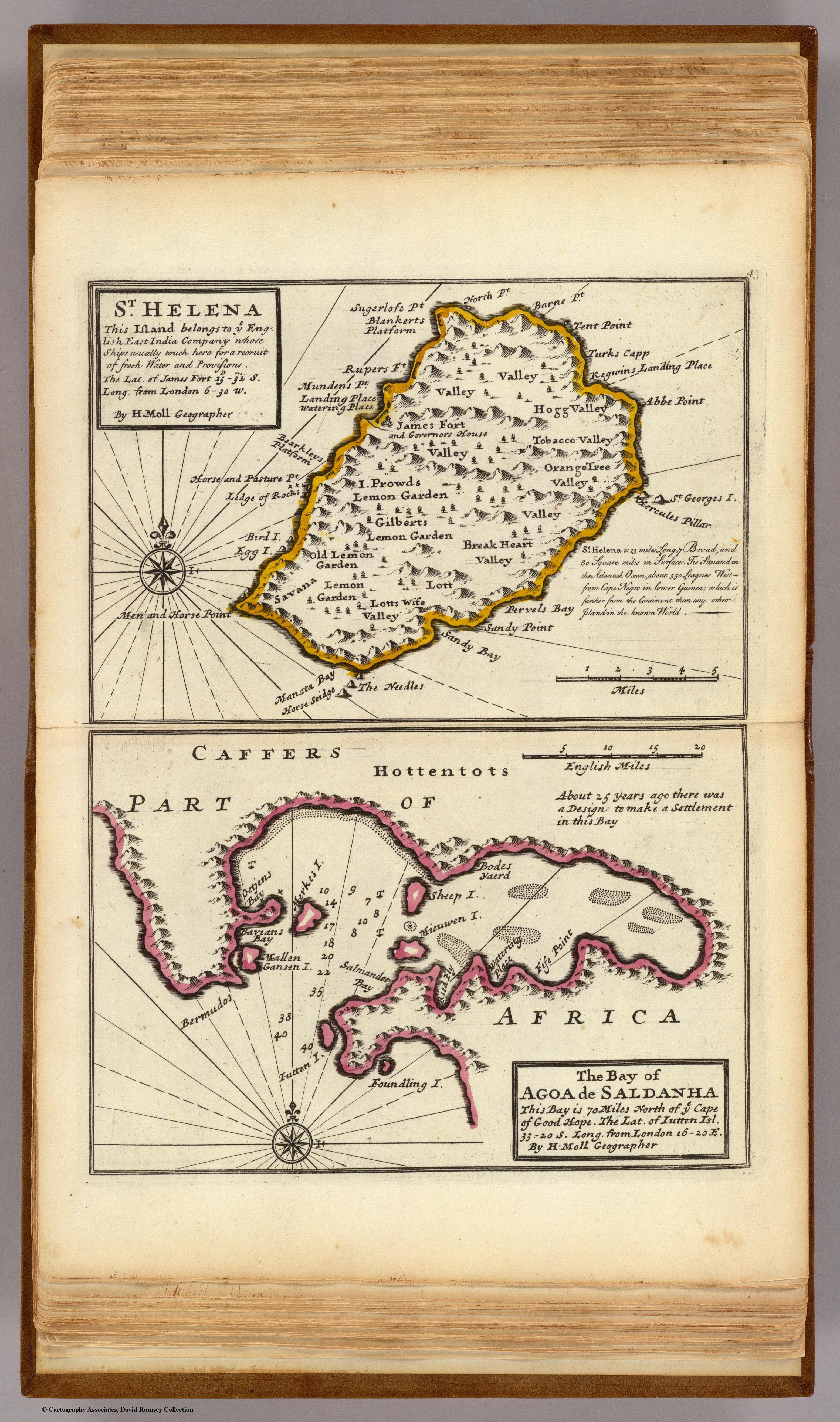 map of St. Helena (South Atlantic), and of Saldanha Bay (South Africa)